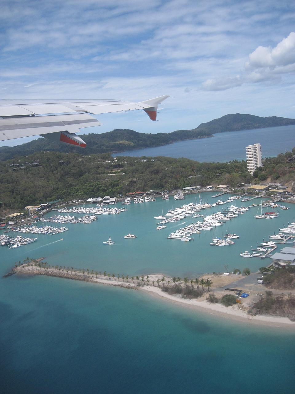 Hamilton Island, Queensland